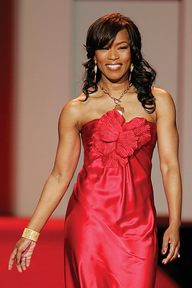 Angela Bassett modelling in the 2007 Red Dress Collection for the Heart Truth campaign